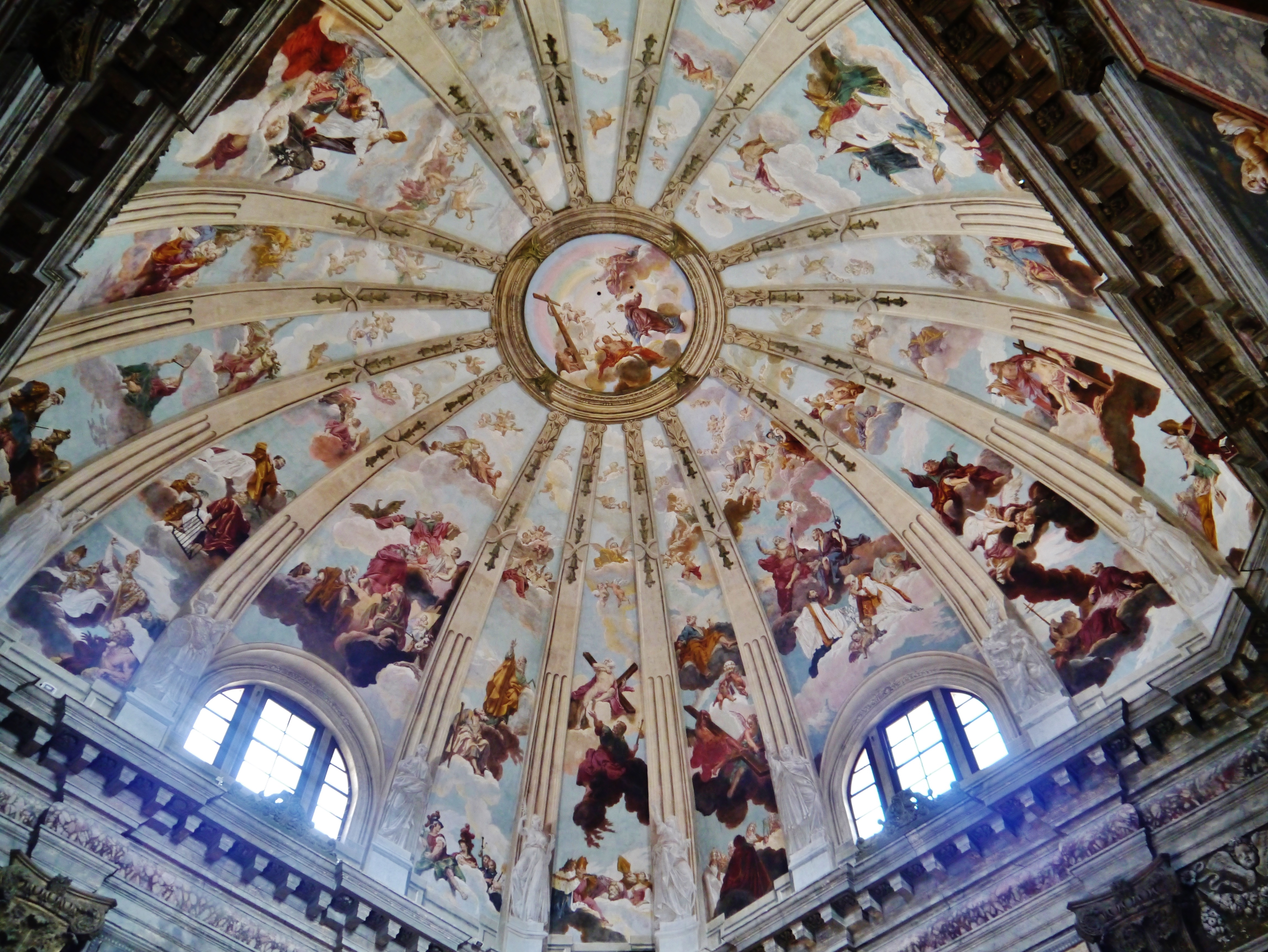 Dome of the Church of Sts. Simon the Zealot & Jude the Apostle (combined San Gaetano), Padua, Province of Padua, Region of Veneto, Italy